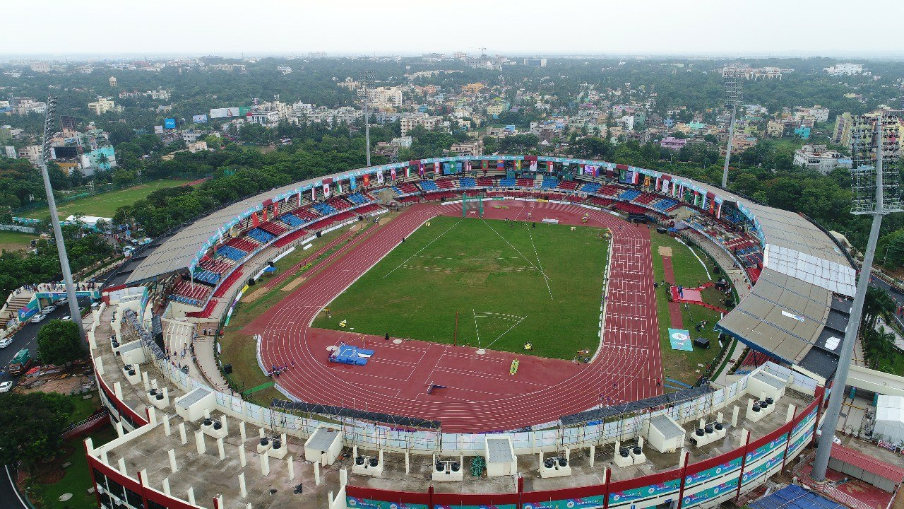 Aerial view of Kalinga Stadium, Bhubaneswar